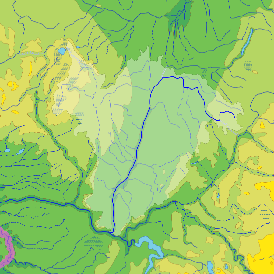 Nevėžis basin / catchment area of ​​Nevėžis in relation to the Memel